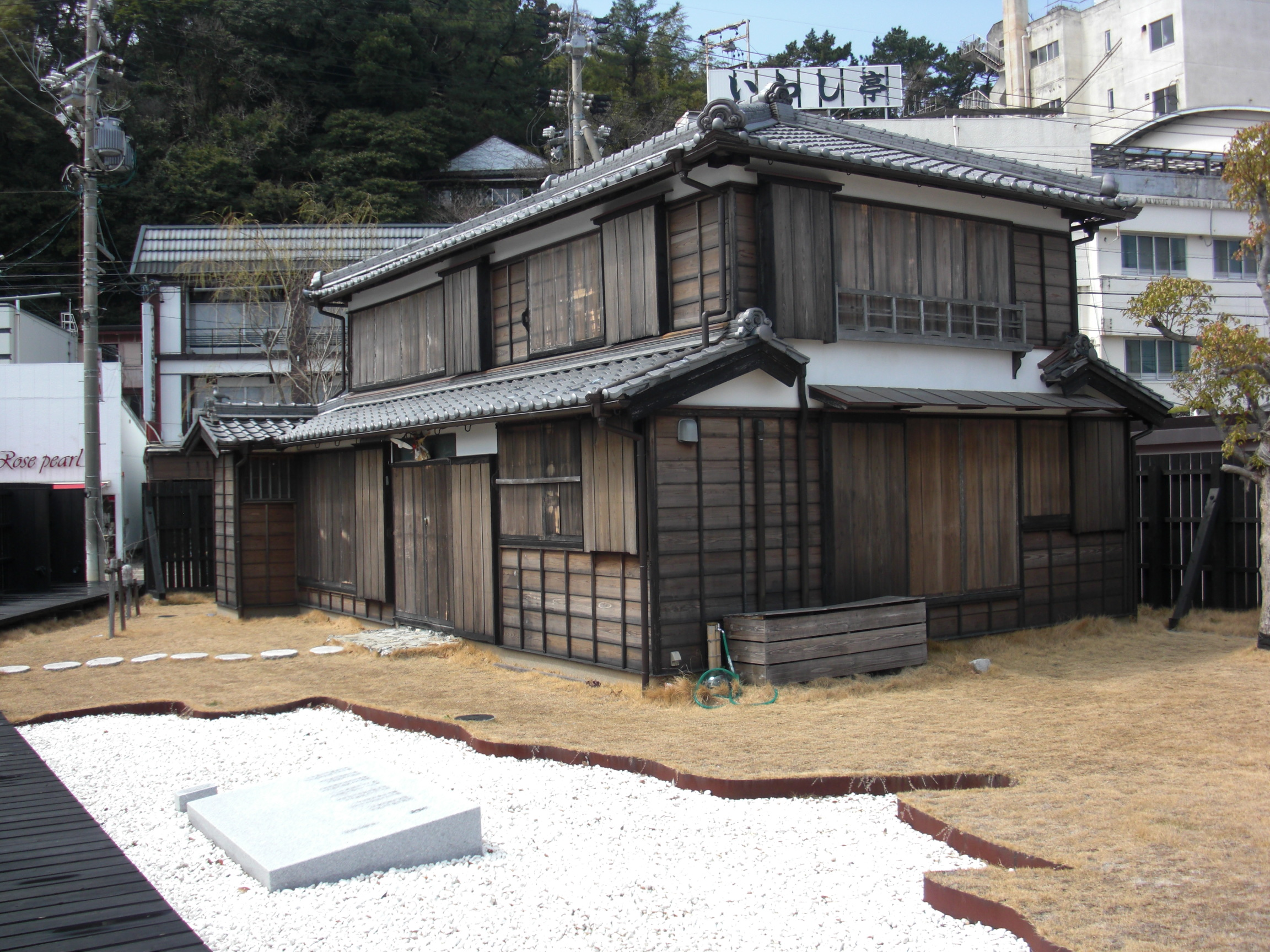 This is a Irako Seihaku, a Japanese doctor and poet's house. It is in Toba 1 chome, Toba city, Mie prefecture, Japan.